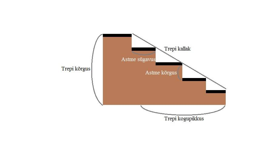 Stair measurments